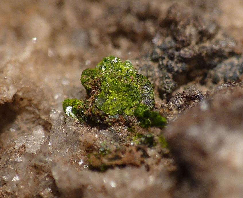 Vésigniéite Locality: Floßberg Mine, Bad Lauterberg, Harz, Lower Saxony, Germany Field of view 6 mm.